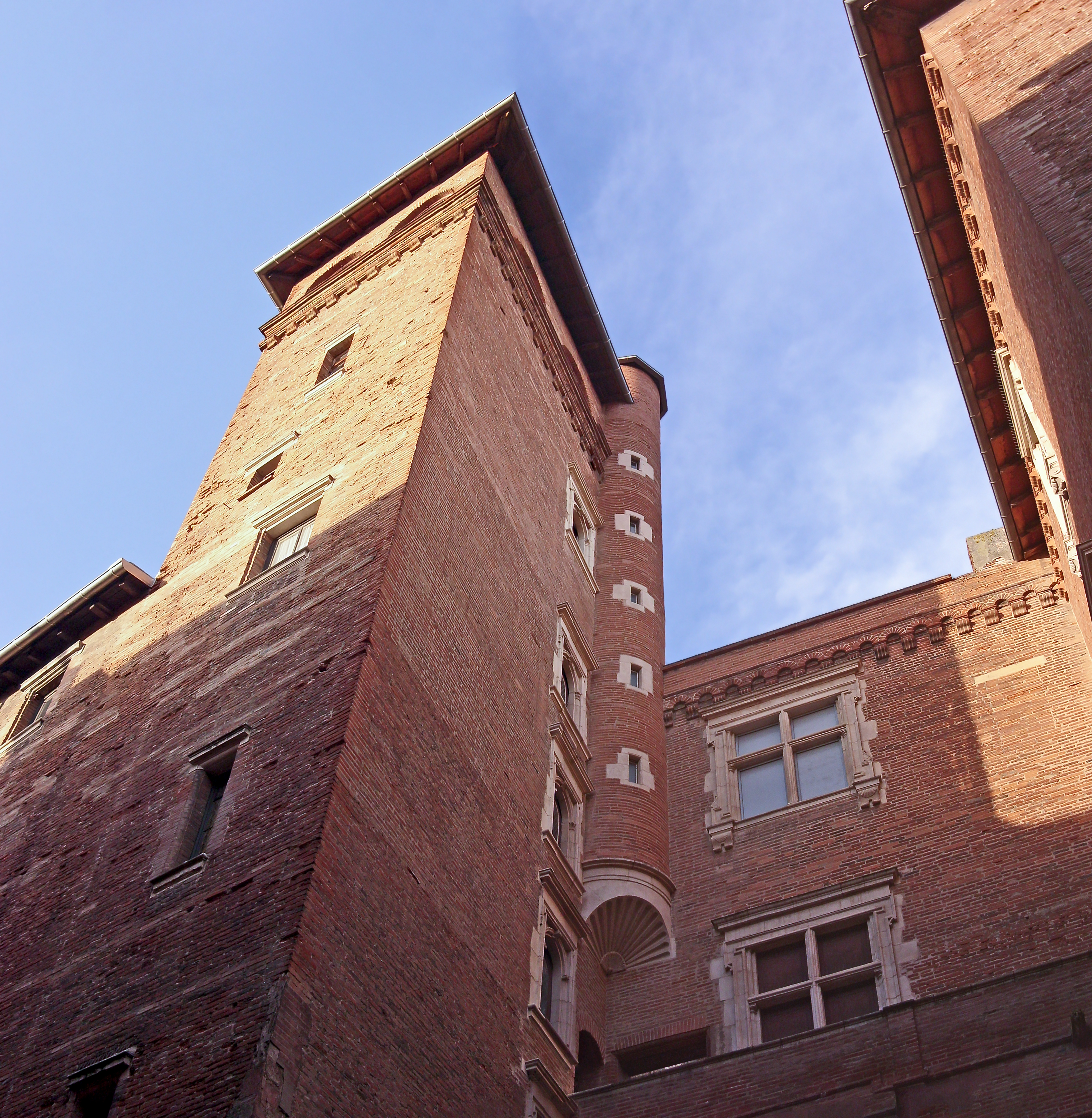 Hôtel Jean de Mansencal in Toulouse. Facade on rue d‘Espinasse.